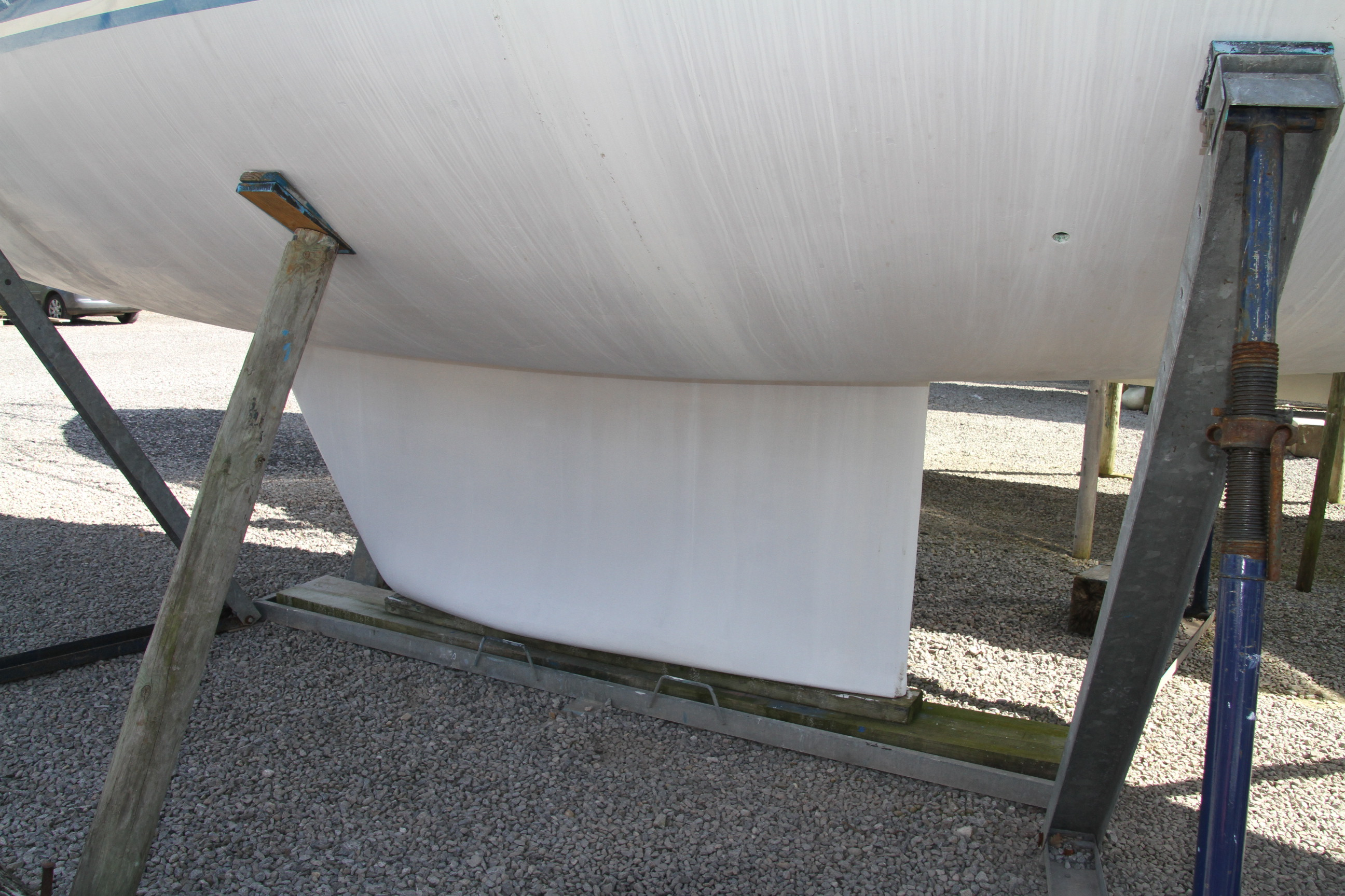 Swan 43-123 Trouper CB